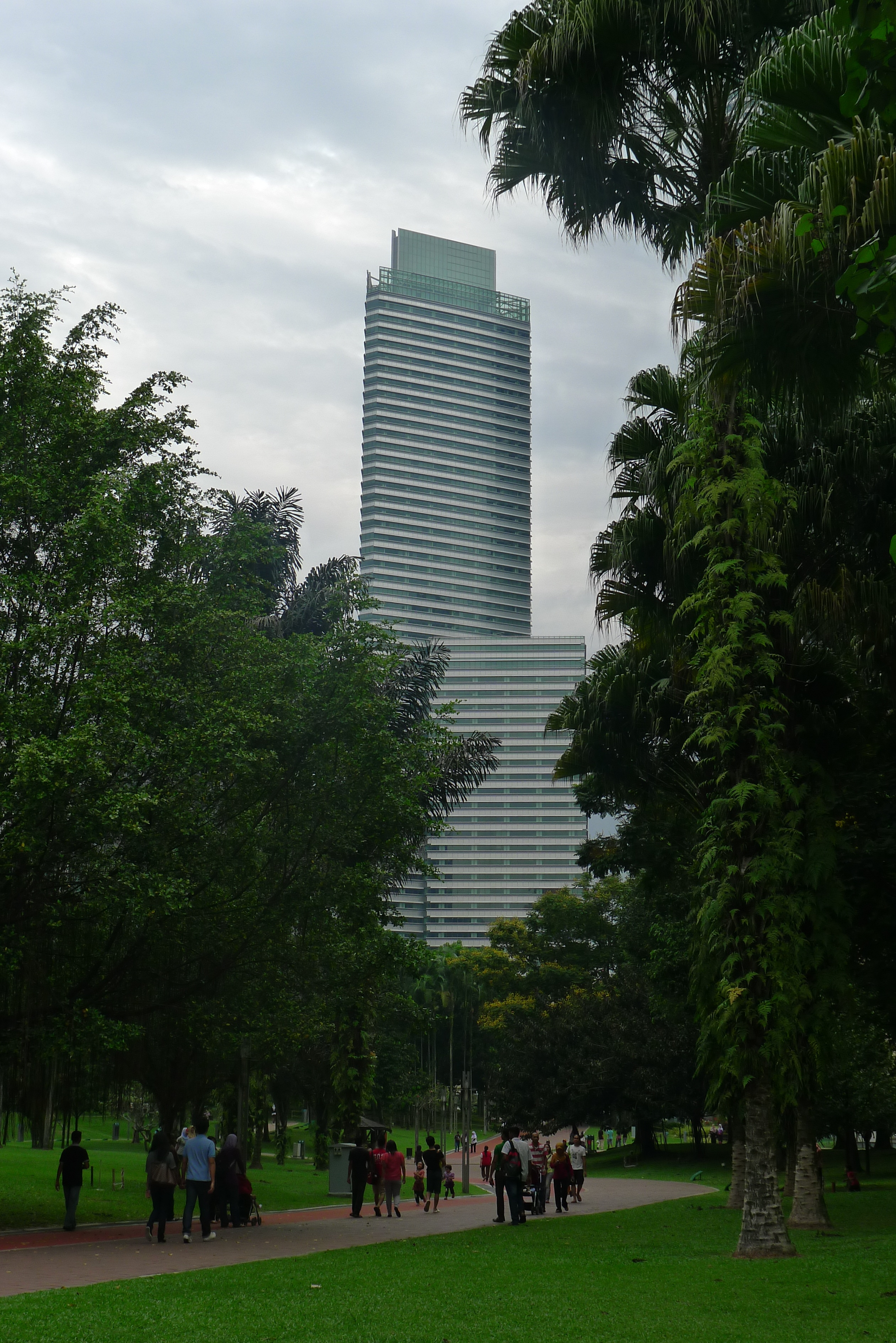 Menara Carigali as seen from KLCC Park.